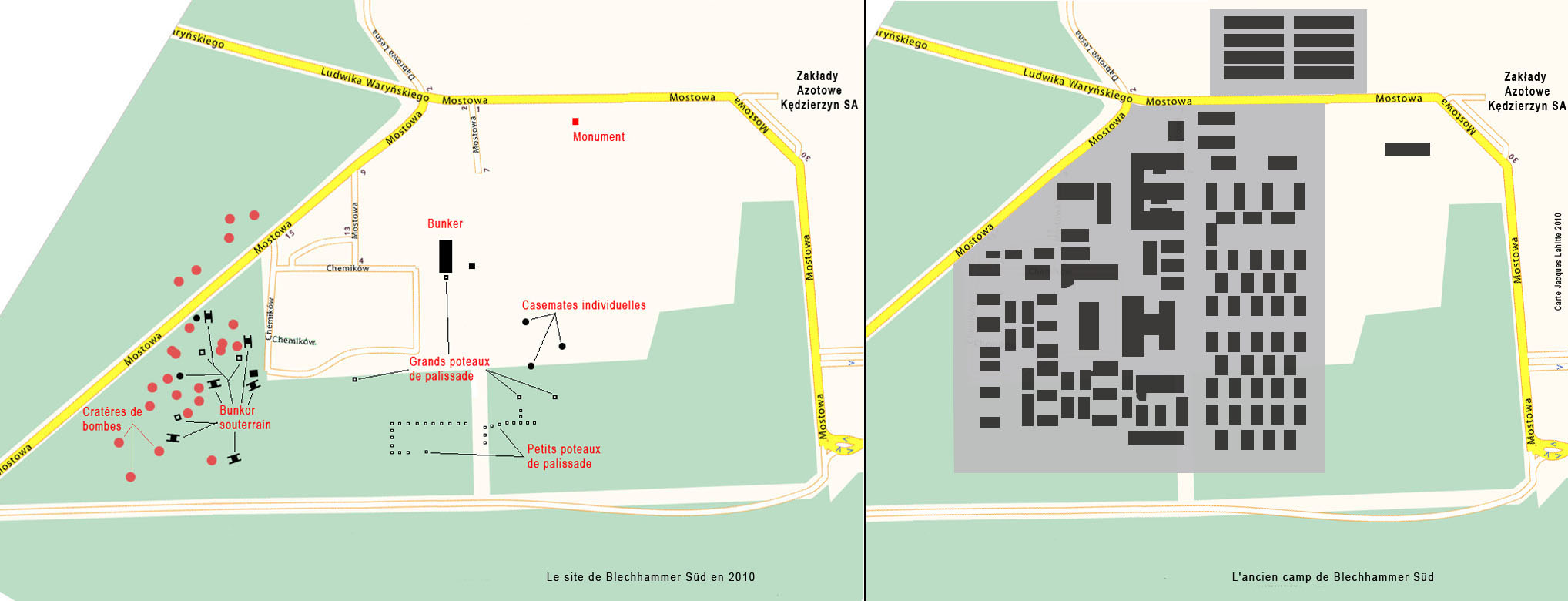 Map of the former main prisoner camp of Blechhammer south and the actual site.